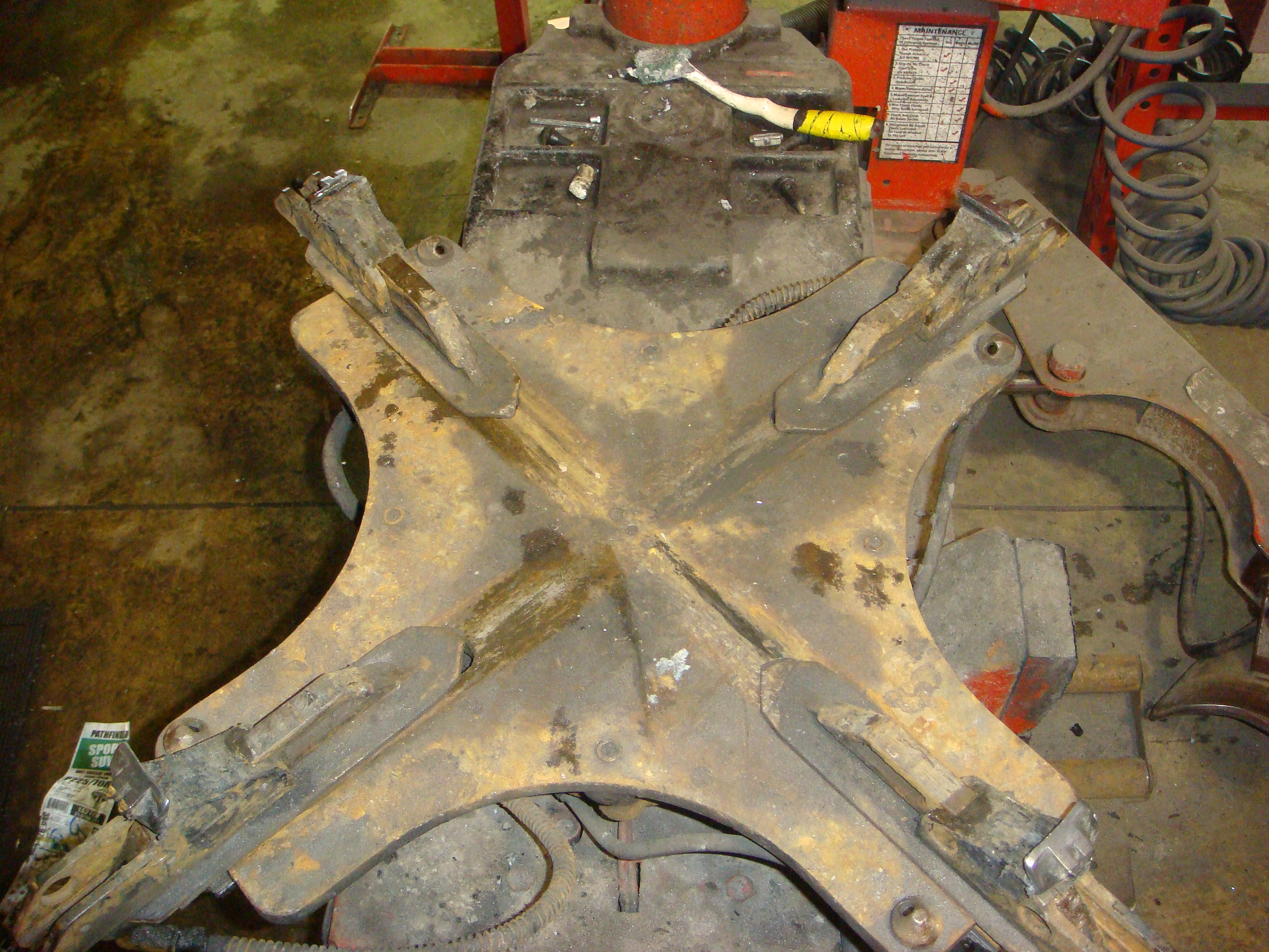 Turntable with rim clamps on a tire changer.